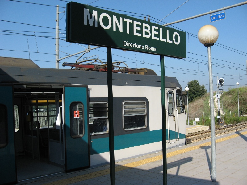 Montebello Train Station in Rome.